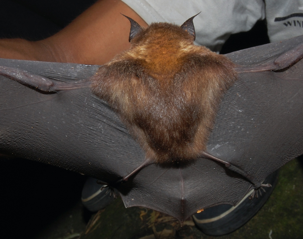 Intermediate Roundleaf Bat (Hipposideros larvatus), forearm 60mm. Back view. From Lampung, Southern Sumatra.